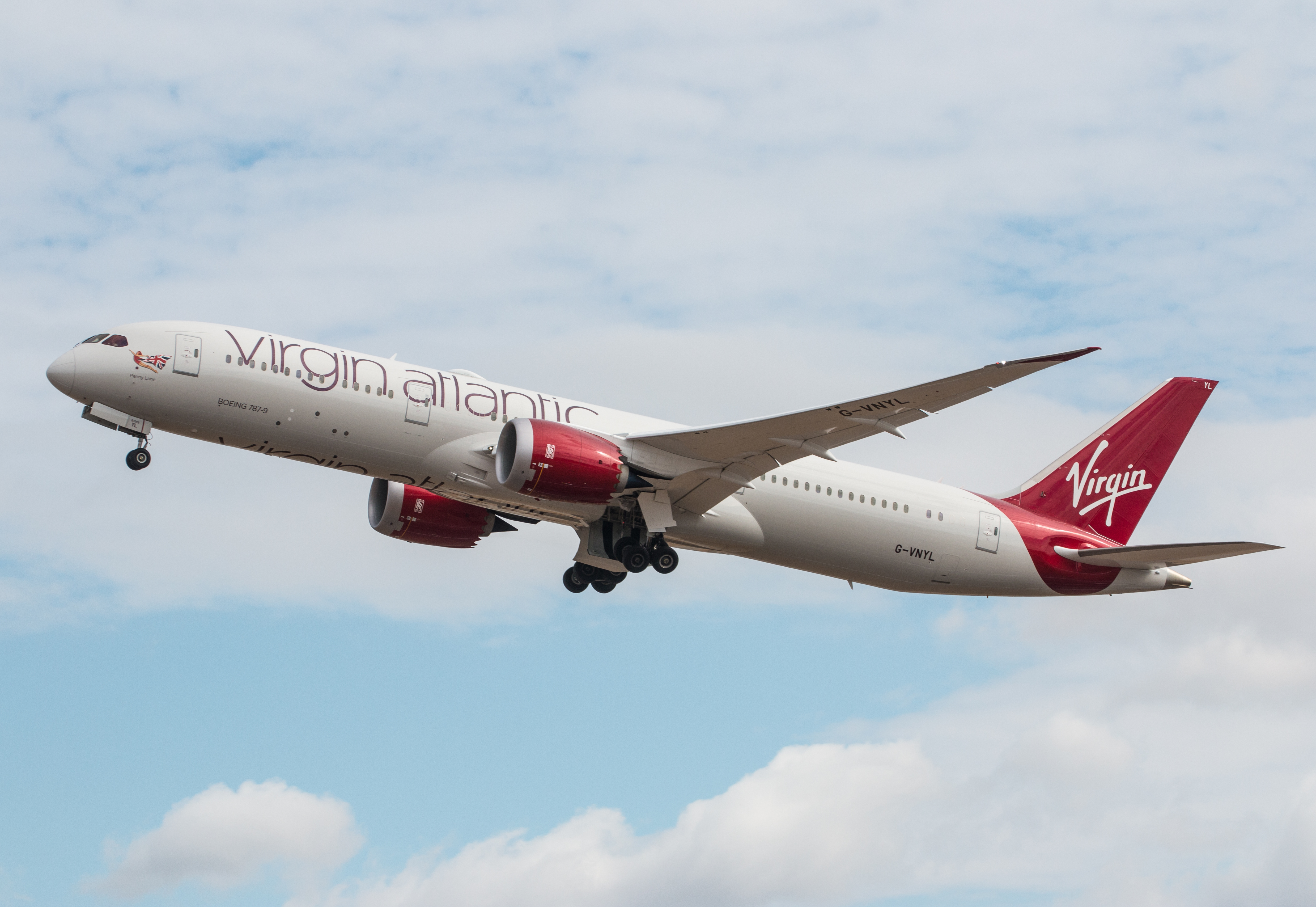 Heathrow Airport, London